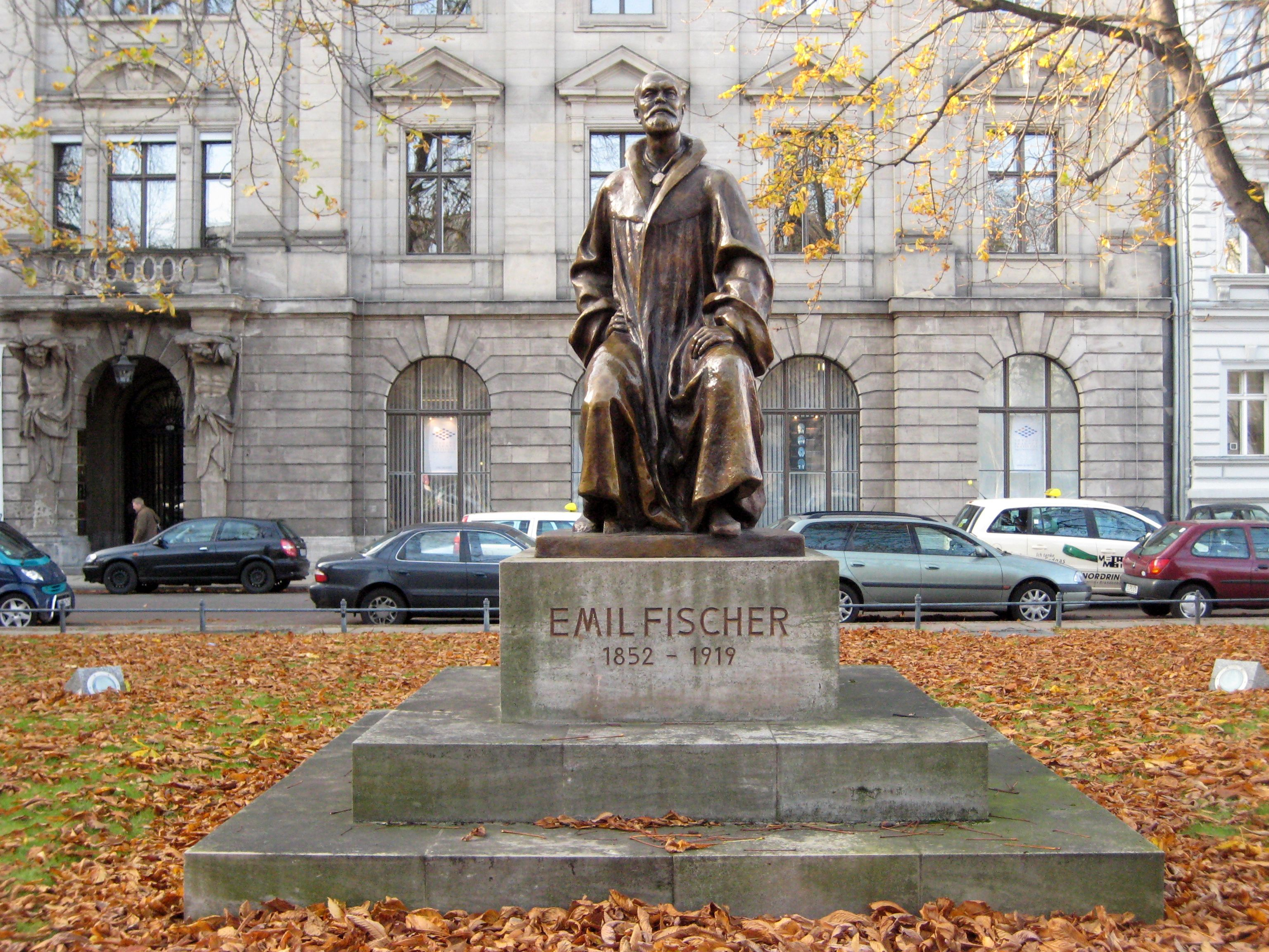 Memorial for Hermann Emil Fischer at Robert-Koch-Platz in Berlin-Mitte; bronze copy (1995) of the limestone original by Fritz Klimsch (1921) destroyed in WWII